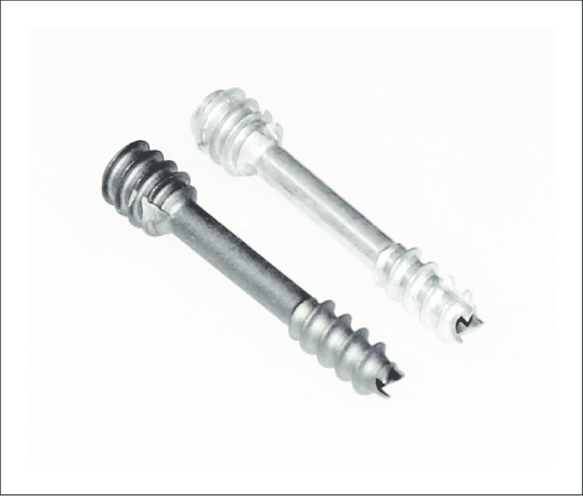 پیچ های ارتوپدیک منیزیمی